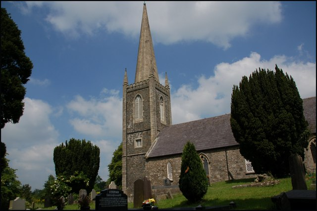 St Mellan's Church of Ireland parish church, Loughbrickland, County Down, Northern Ireland. Sir Marmaduke Whitechurch arranged for the parish church to be moved here in 1611. The church and part of Loughbrickland were destroyed in the wars of 1641. It was rebuilt in 1688. The spire was added in 1823.